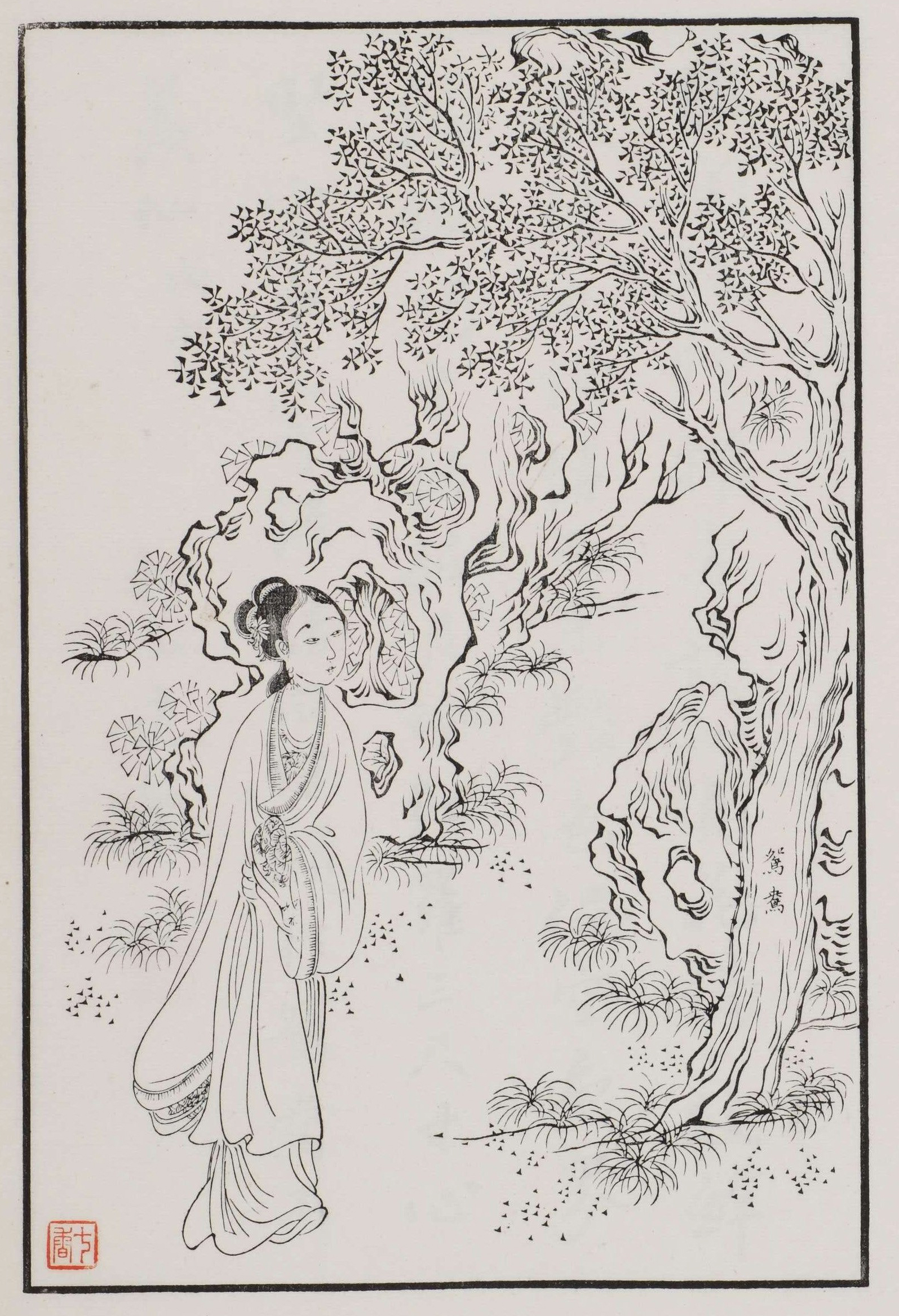 Yuanyang